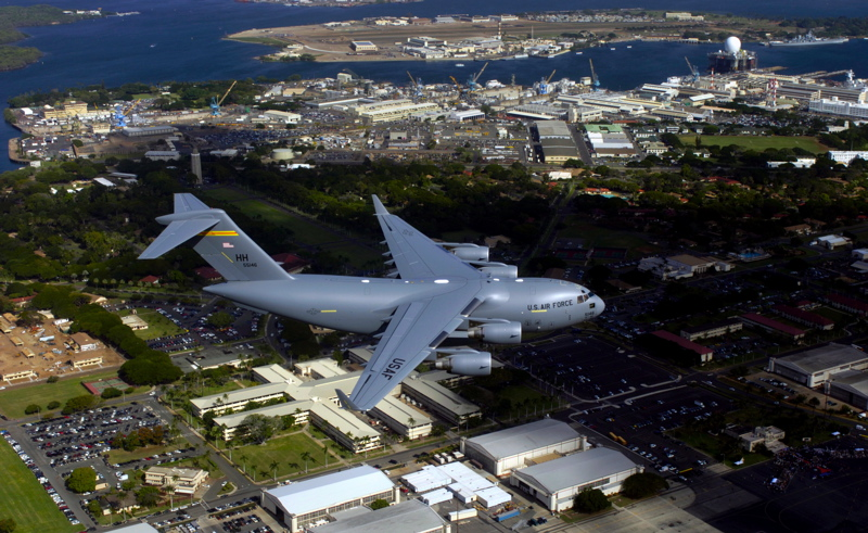 USAF caption: Hickam Air Force Base, Hawaii (AFPN) -- The first Hawaii-based C-17 Globemaster III flies over Hickam Air Force Base and nearby Pearl Harbor for the arrival ceremony. Hickam is the first base outside the continental U.S. to permanently host the C-17. By the end of the year, the base will be home to eight C-17s. The 15th Airlift Wing and the Hawaii Air National Guard 154th Wing will jointly operate and maintain the aircraft.